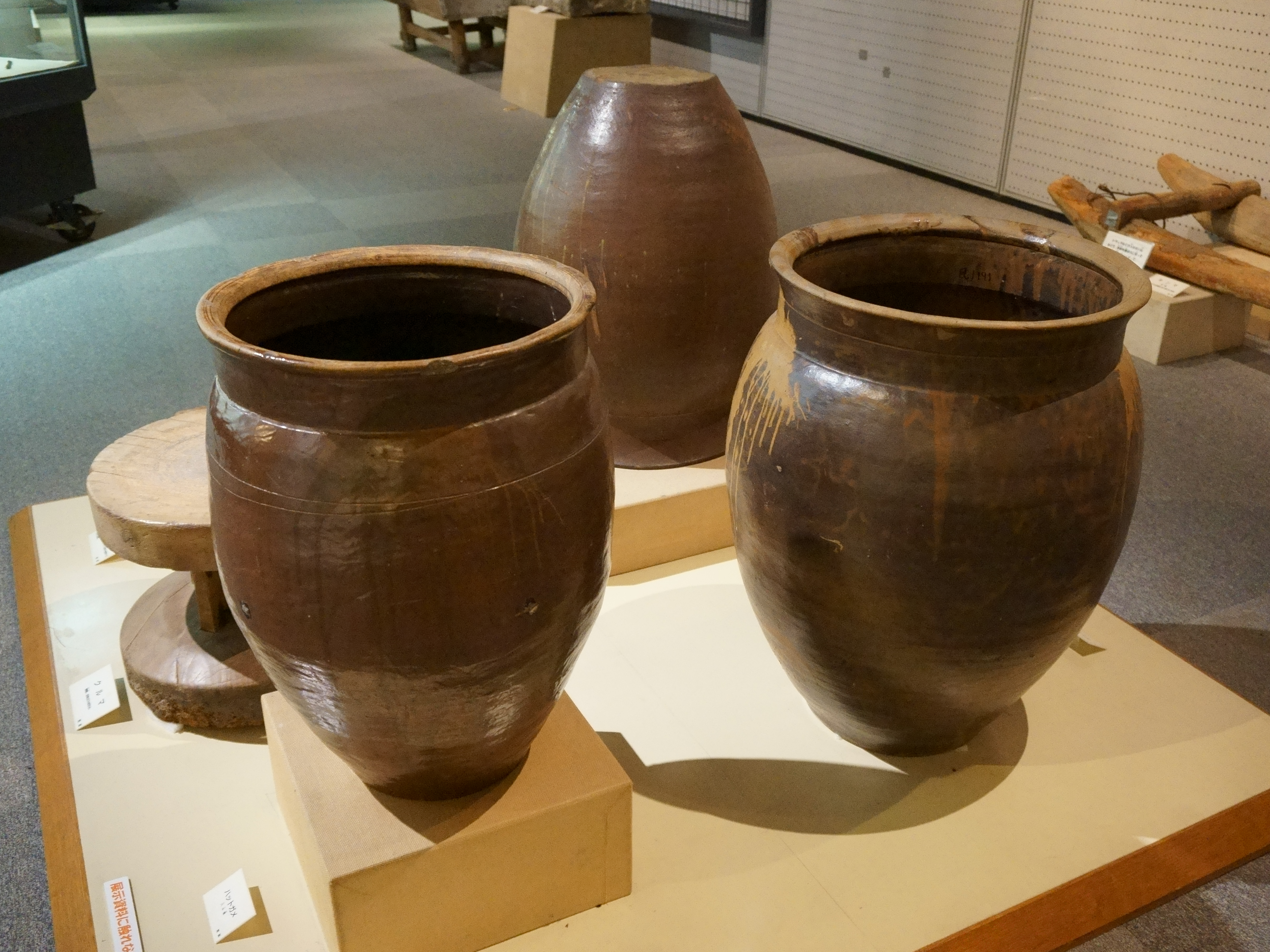 Japanese Handō style ceramic tall jars, displays at Saga Prefectural Museum.